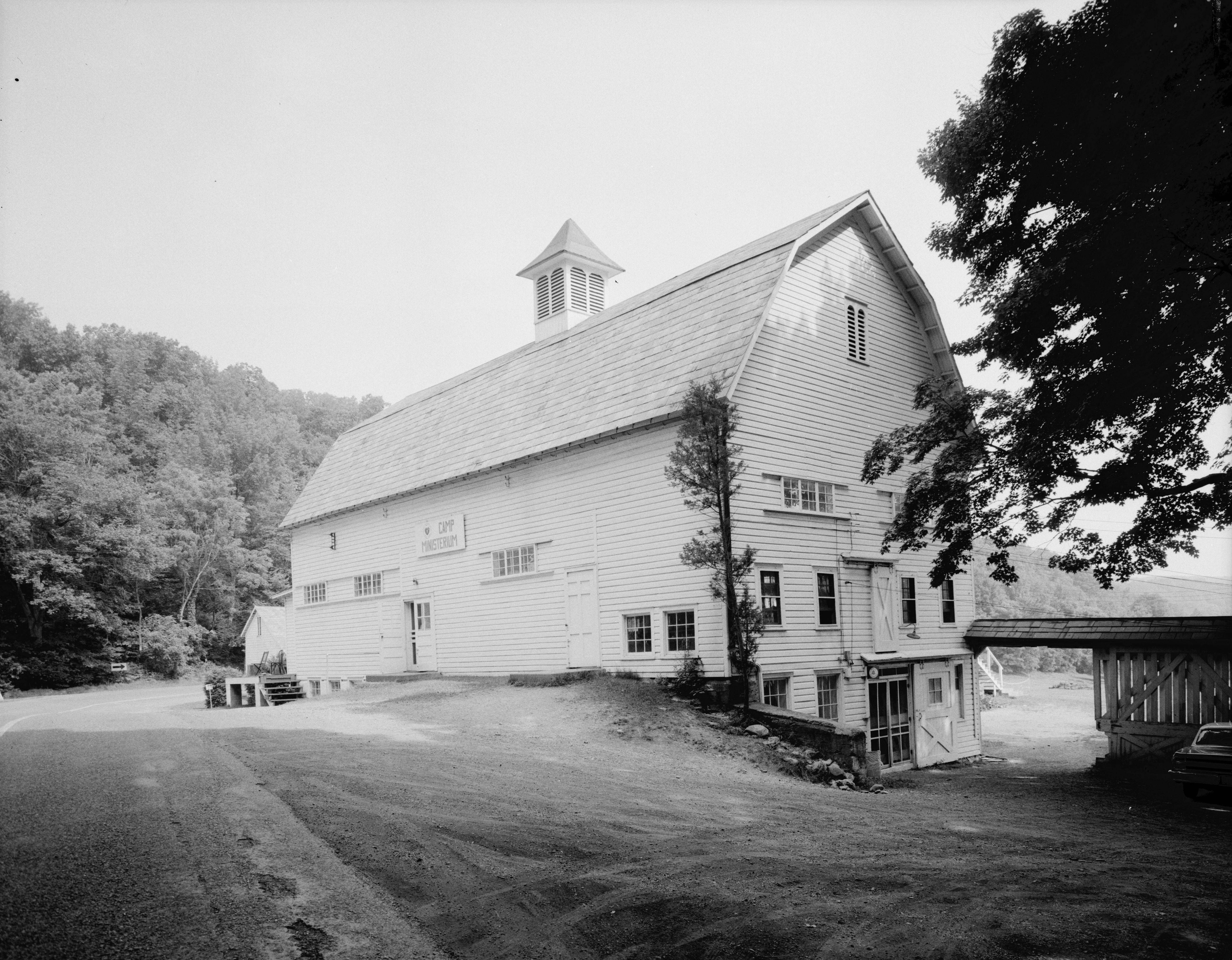 Barn at the John Turn Farm, located northeast of Stroudsburg in Middle Smithfield Township, Monroe County, Pennsylvania, United States. The farm is listed on the National Register of Historic Places.